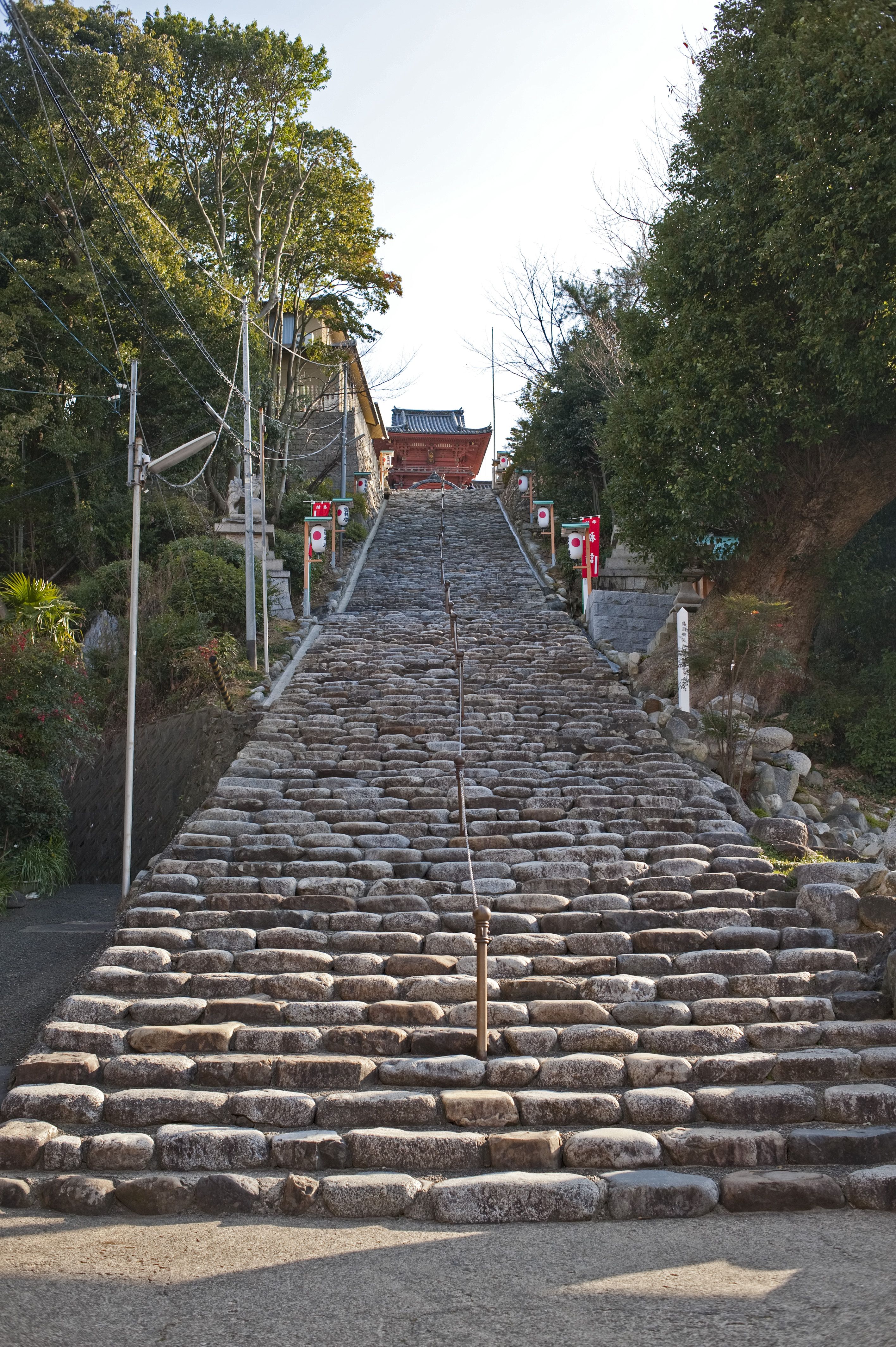 Isaniwa Shrine's honden in Matsuyama, Ehime, a rare example of hachiman-zukuri-style.